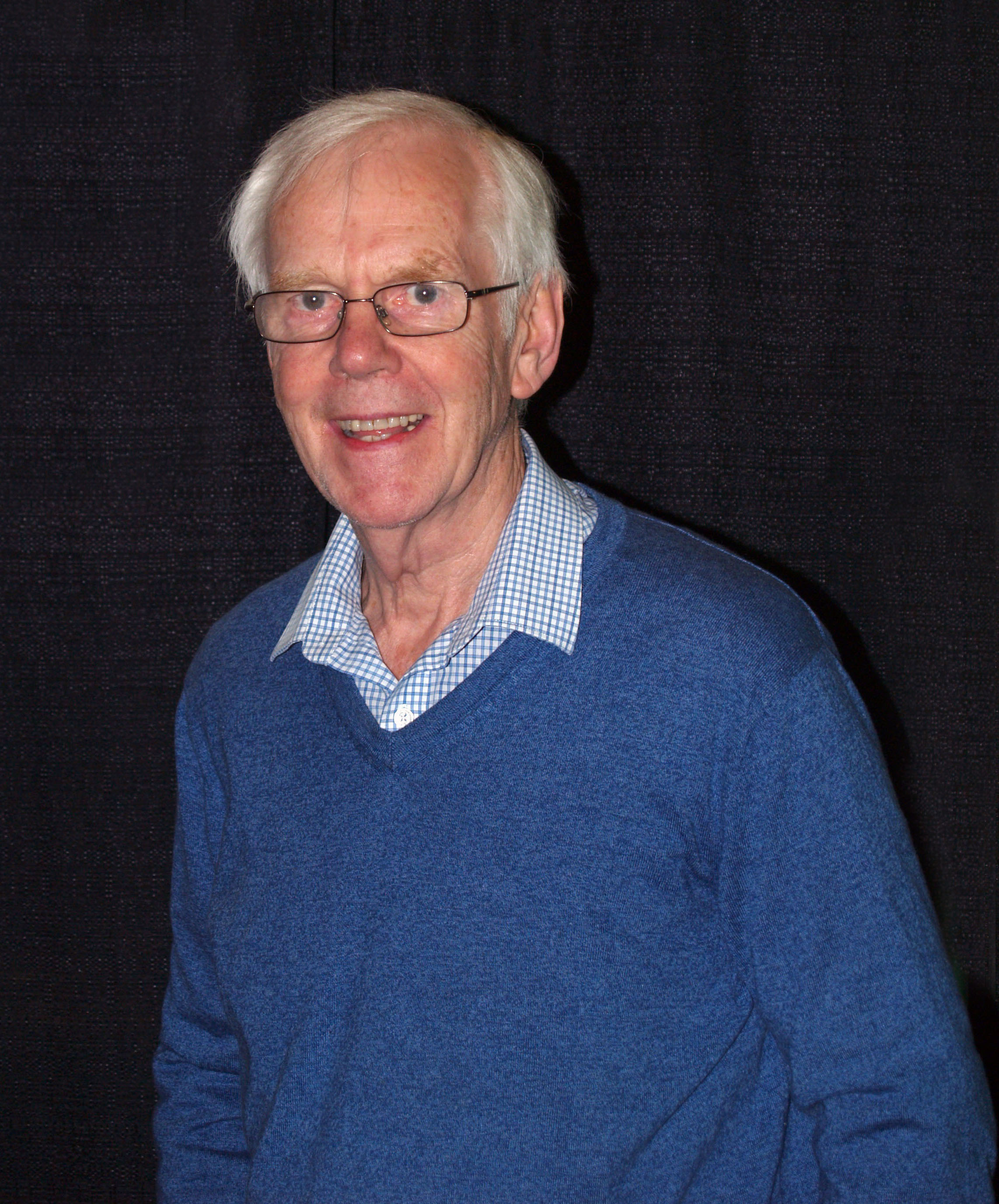 Actor Jeremy Bulloch at the Meadowlands Exposition Center in Secaucus, New Jersey on April 17, 2016, Day 2 of the 2016 East Coast Comicon. This photo was created by Luigi Novi. It is not in the public domain, and use of this file outside of the licensing terms is a copyright violation.